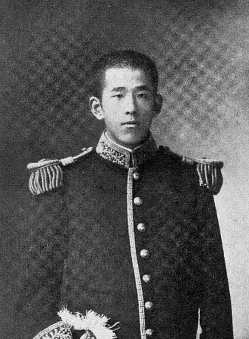 Kimiosa Kikutei